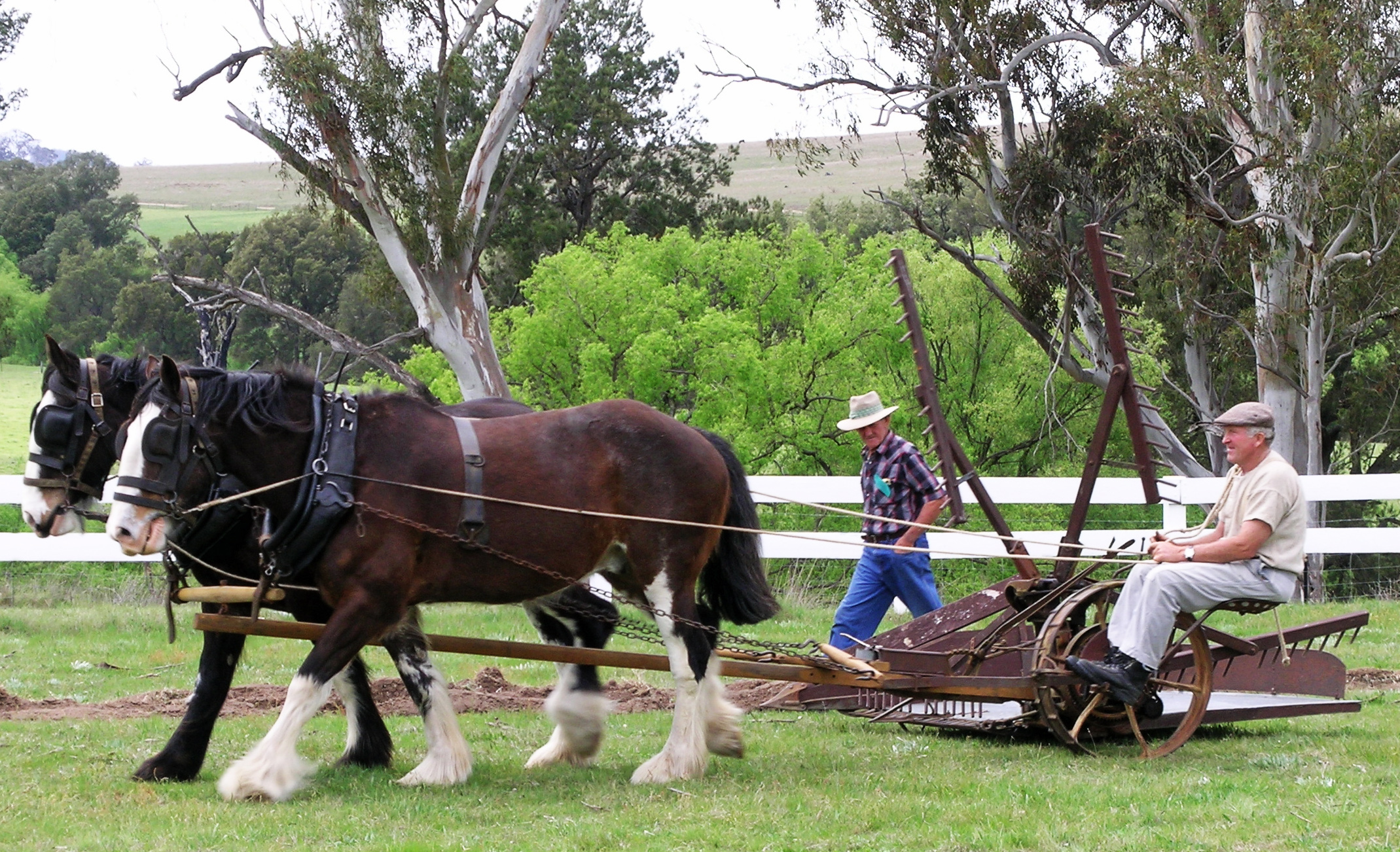 Reaper, Australian Draught Horse competition, Woolbrook, NSW, Australia